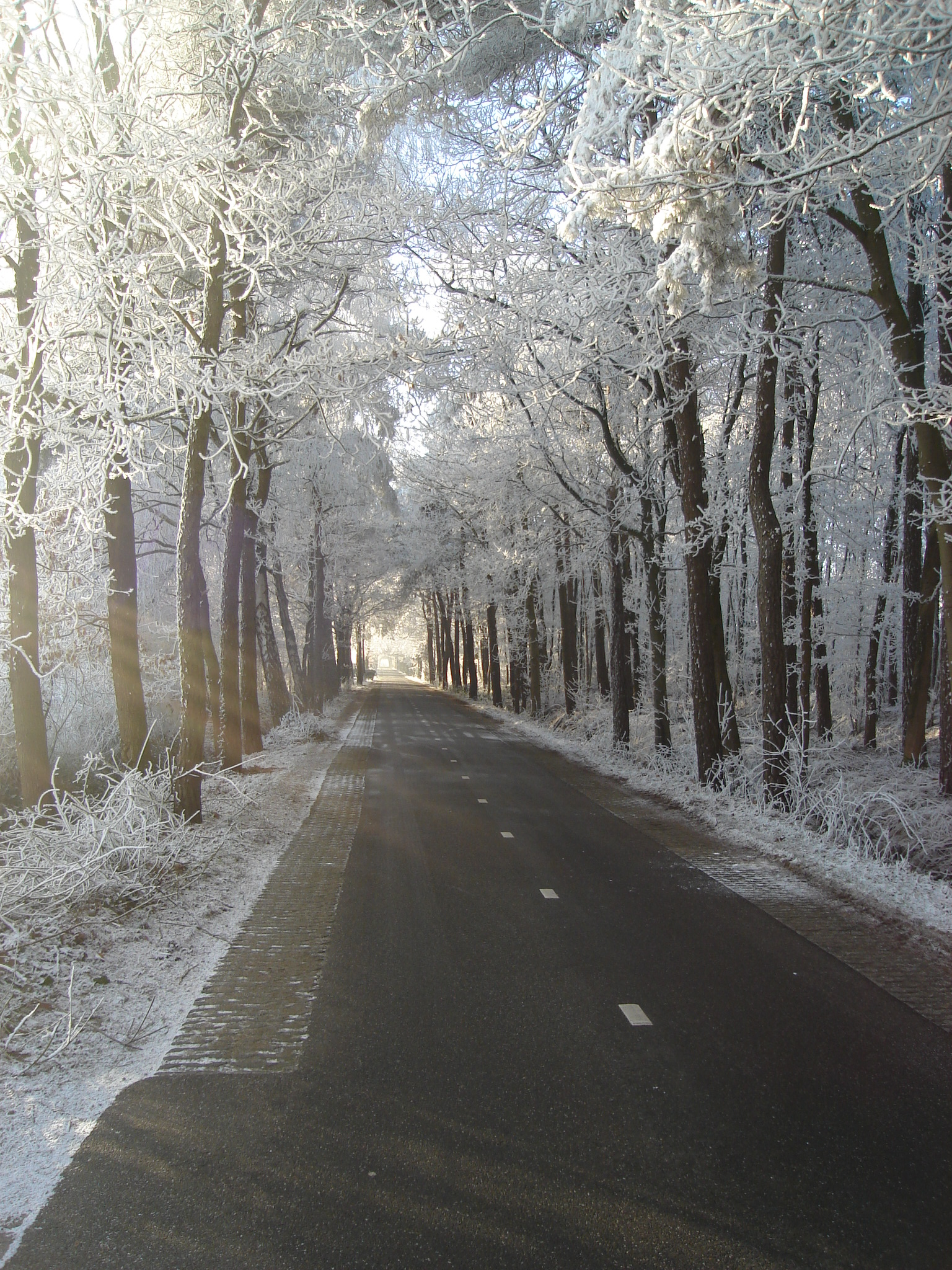 Groenewoudsedijk, Oostelbeers, The Netherlands. Created December 2007